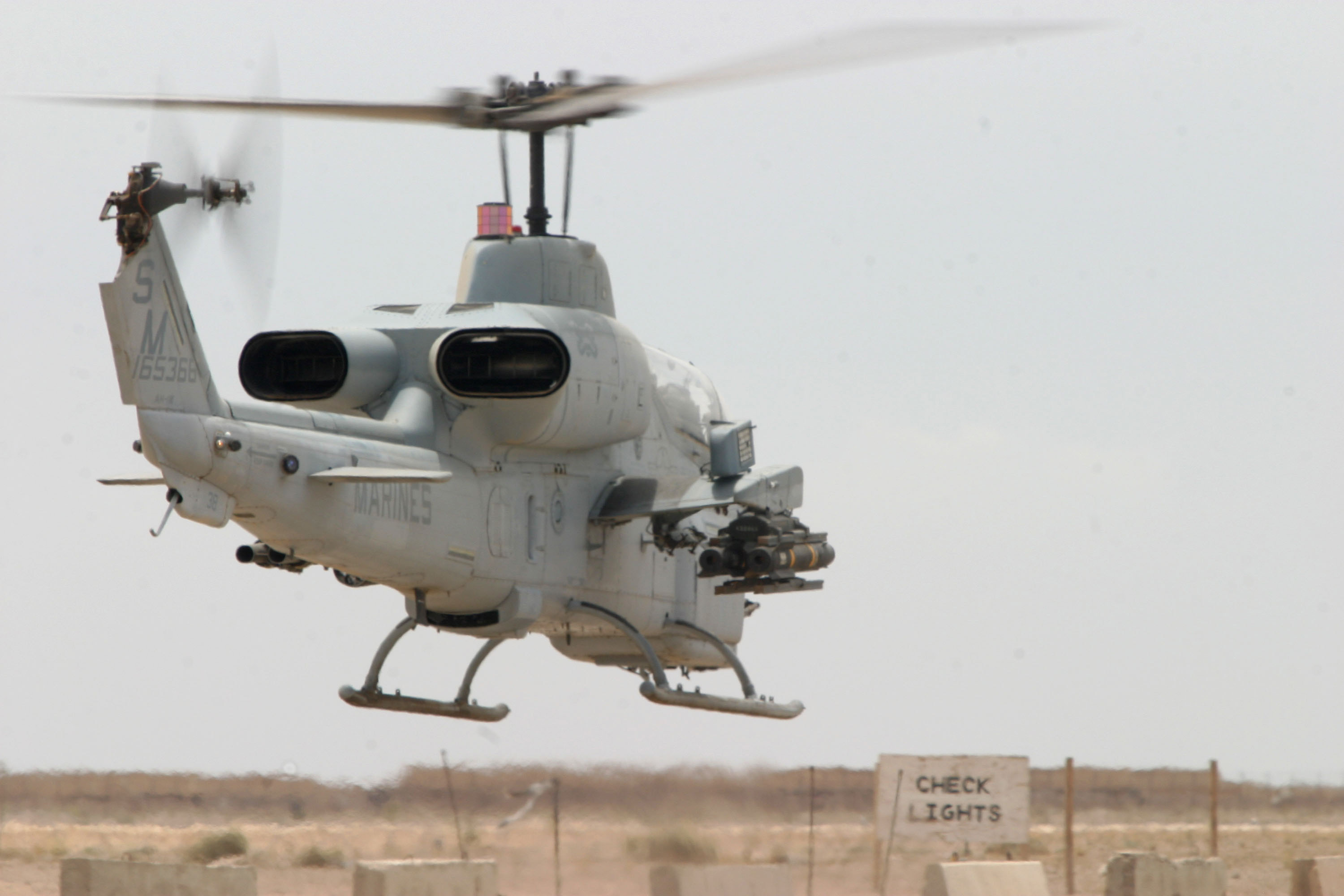 An AH-1W Super Cobra with Marine Light Attack Helicopter Squadron-369 (HMLA-369) takes off for a mission from Al Taqqadum, Iraq. HMLA-369 is deployed as part of Multi National Forces-West in support of Operation Iraqi Freedom in the Al Anbar province of Iraq to develop the Iraqi Security Forces, facilitate the development of official rule of government reforms and continue the development of a market based economy centered on Iraqi reconstruction.